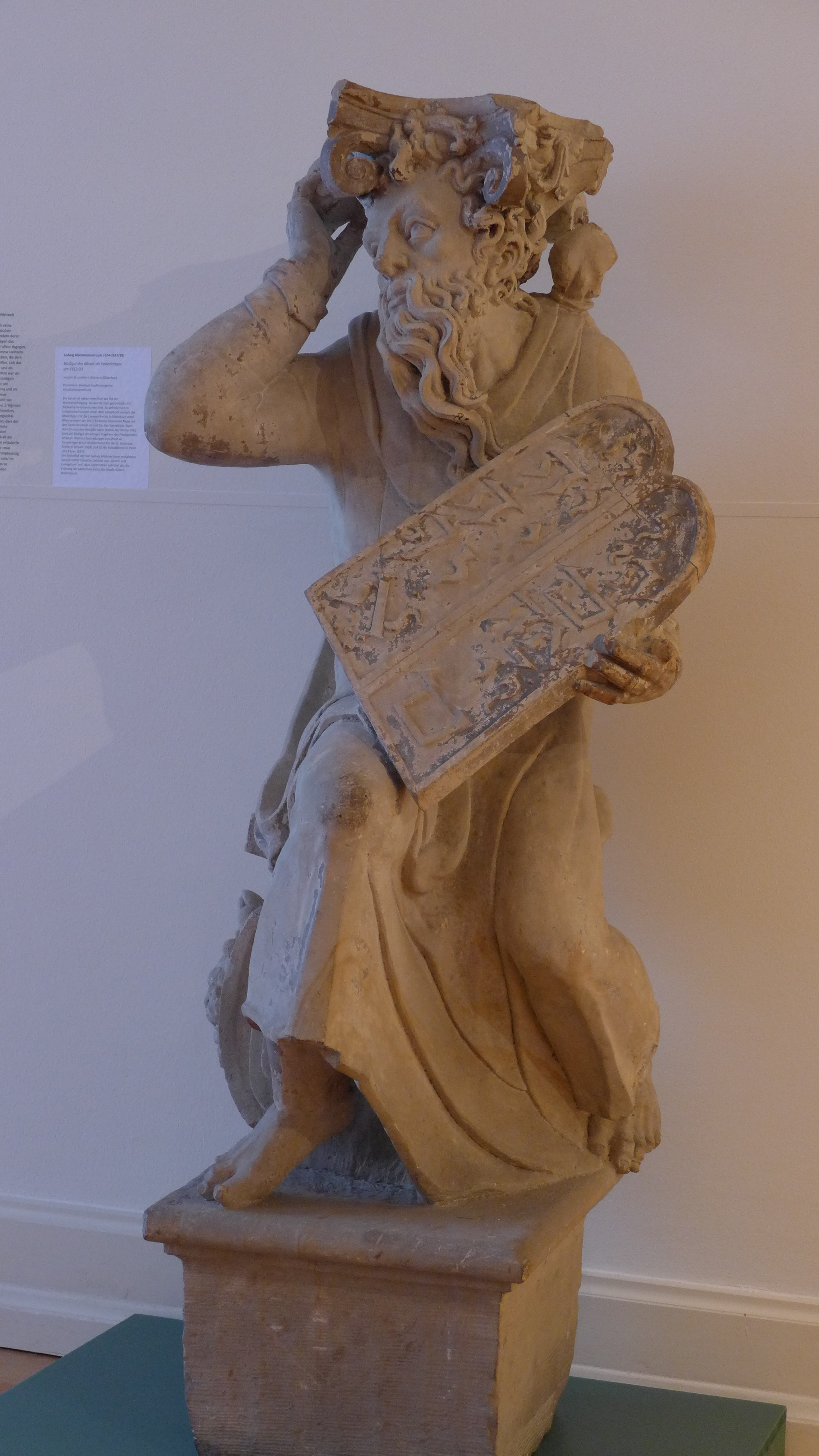 Moses as pulpit bearer from St Lamberti church, Oldenburg (Oldenburg, Lower Saxony), now in Landesmuseum Oldenburg. Sculpture 1612/13 by Ludwig Münstermann (1575-1638/39?).